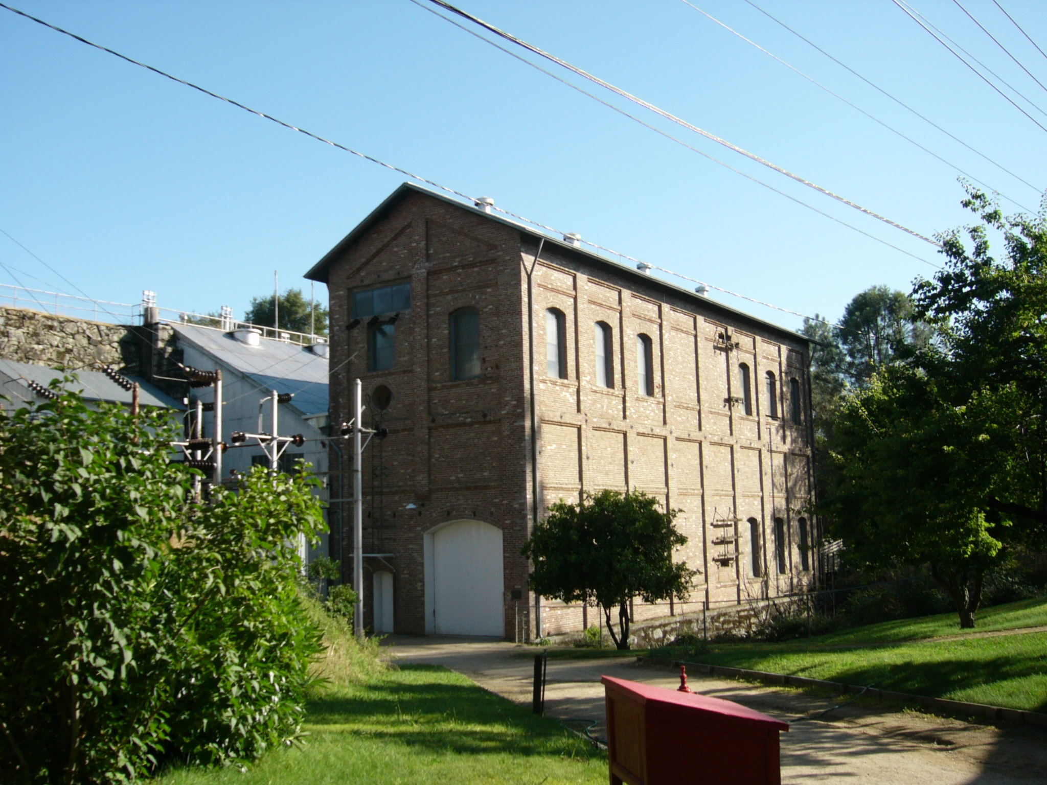 Photo of the old Folsom Powerhouse on the American River, at Folsom Powerhouse State Historic Park, California, USA. By M.Mierzwa in June 2006 and released to the public domain. MCalamari 16:42, 21 September 2006 (UTC)